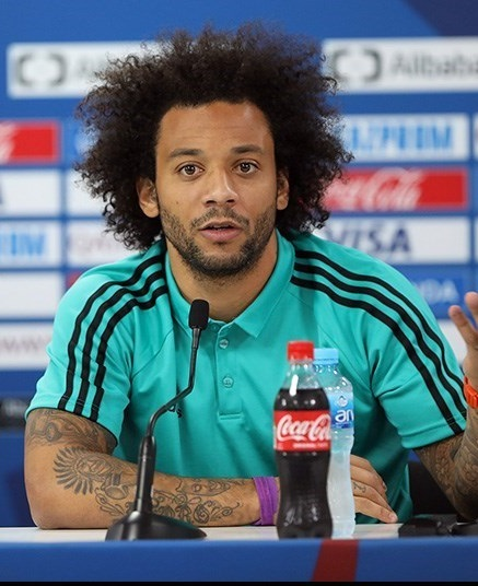 Marcelo, Real Madrid defender in press conference before match against Al-Jazira in FIFA Club World Cup